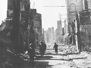 American forces moving through the ruins of Mortain, during the German counterattack of Operation Luttich